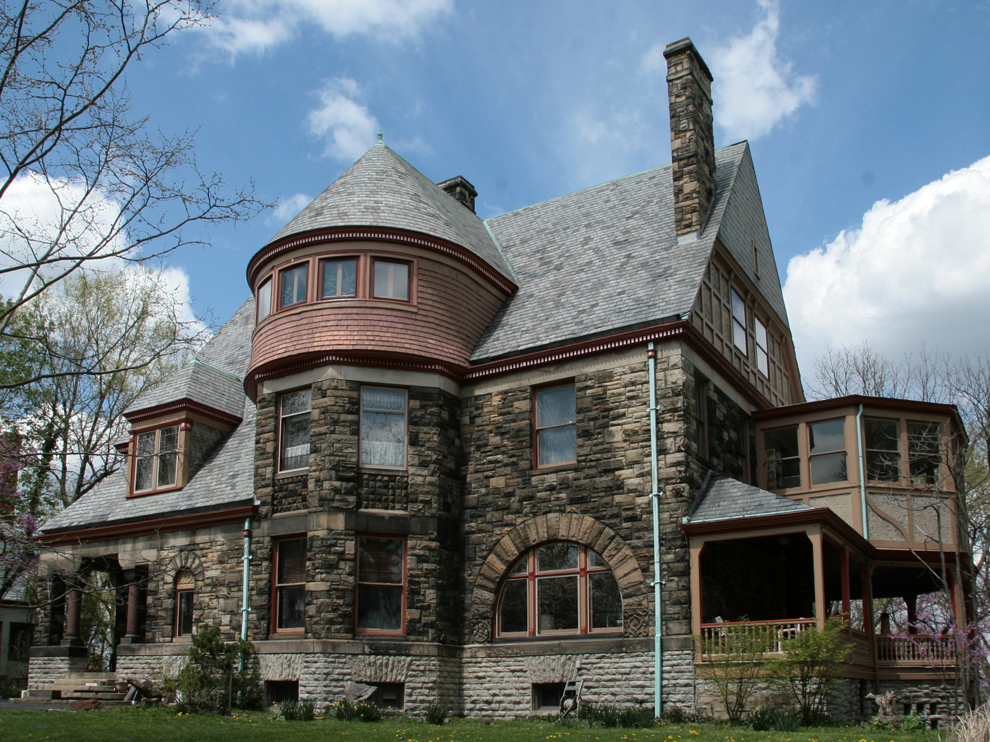 John Uri Lloyd house - 3901 Clifton Avenue in Cincinnati. Taken by Greg Hume on April 19, 2008. Greg Hume (talk) 04:56, 20 April 2008 (UTC)